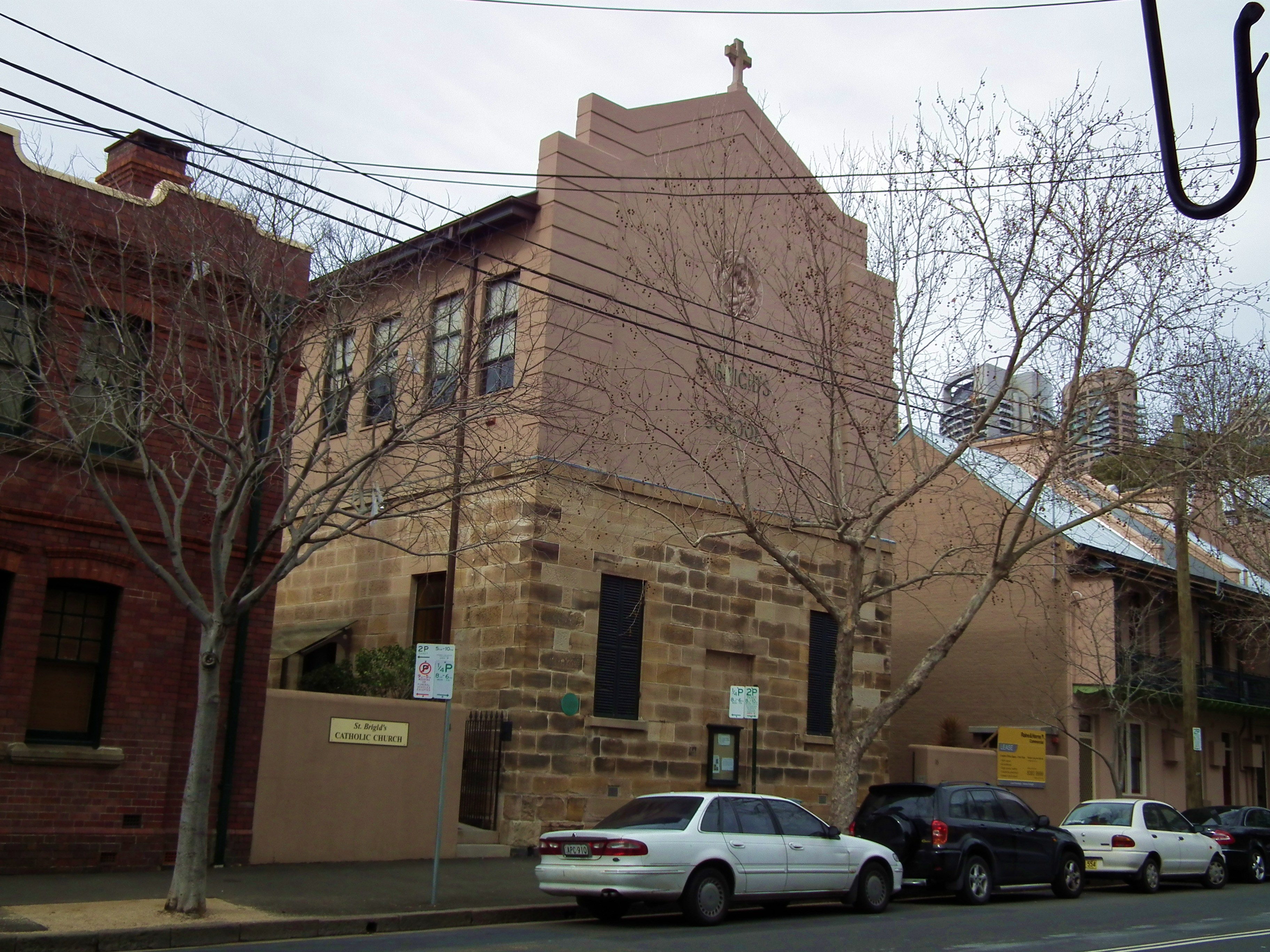 St Brigid's Catholic Church School - Miller's Point, Sydney, New South Wales. Originally built 1834-35 as a Roman Catholic school to be occasionally used as a chapel, it is the oldest surviving Catholic place of worship in Australia. The second story was added in 1933 allowing the lower floor to be used exclusively as a chapel. At times during its history it has also been known as St Bridget's.